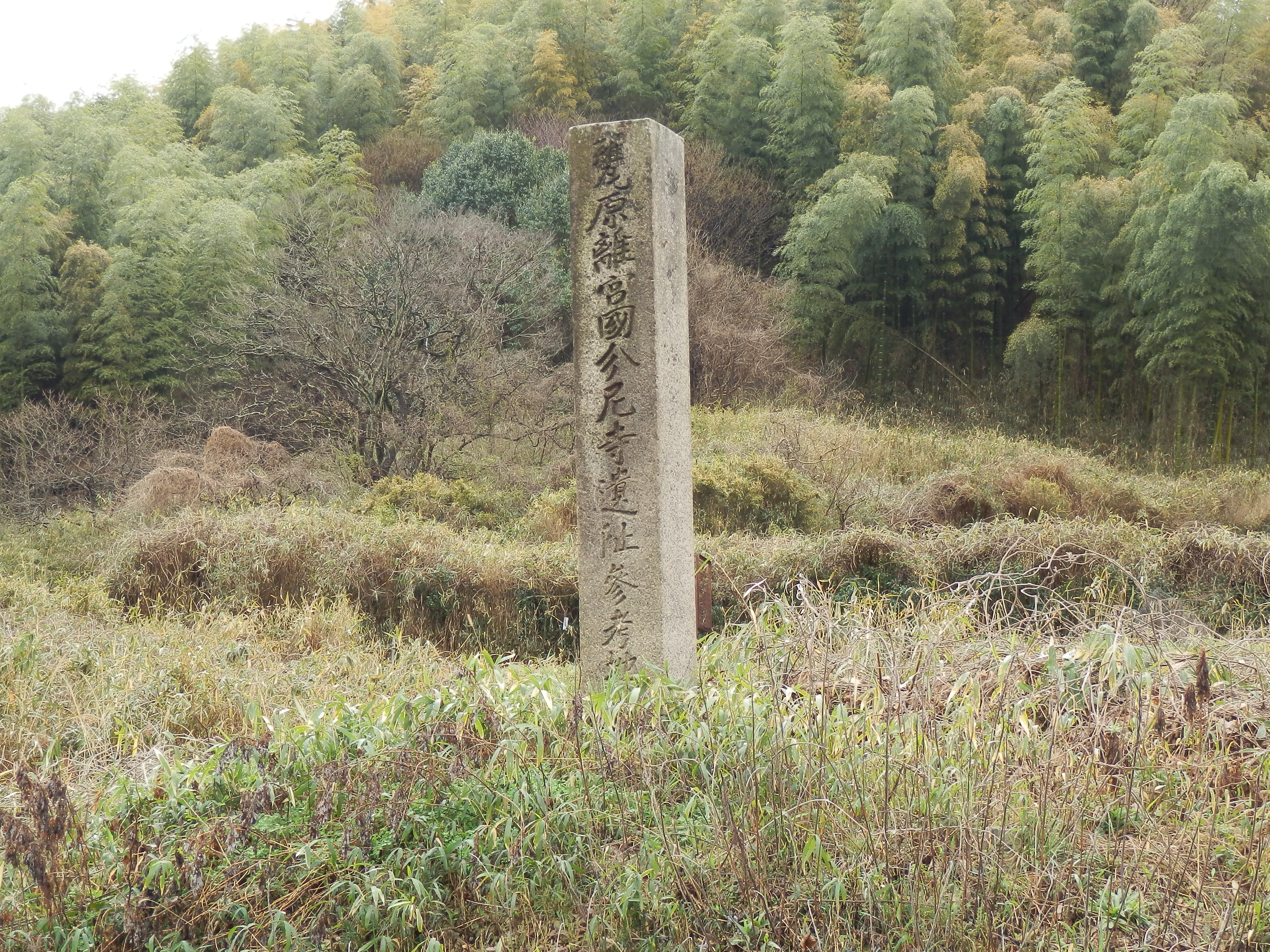 The potential site of Yamashiro Kokubunniji Temple, in Kizugawa, Kyoto Prefecture, Japan